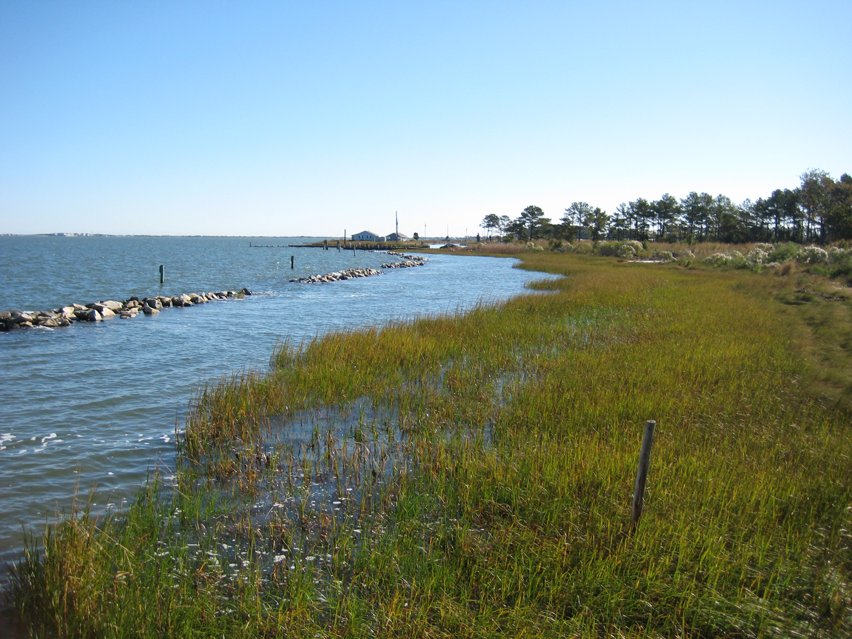 View of Indian River Bay from Holts Landing State Park, Sussex County, Delaware.